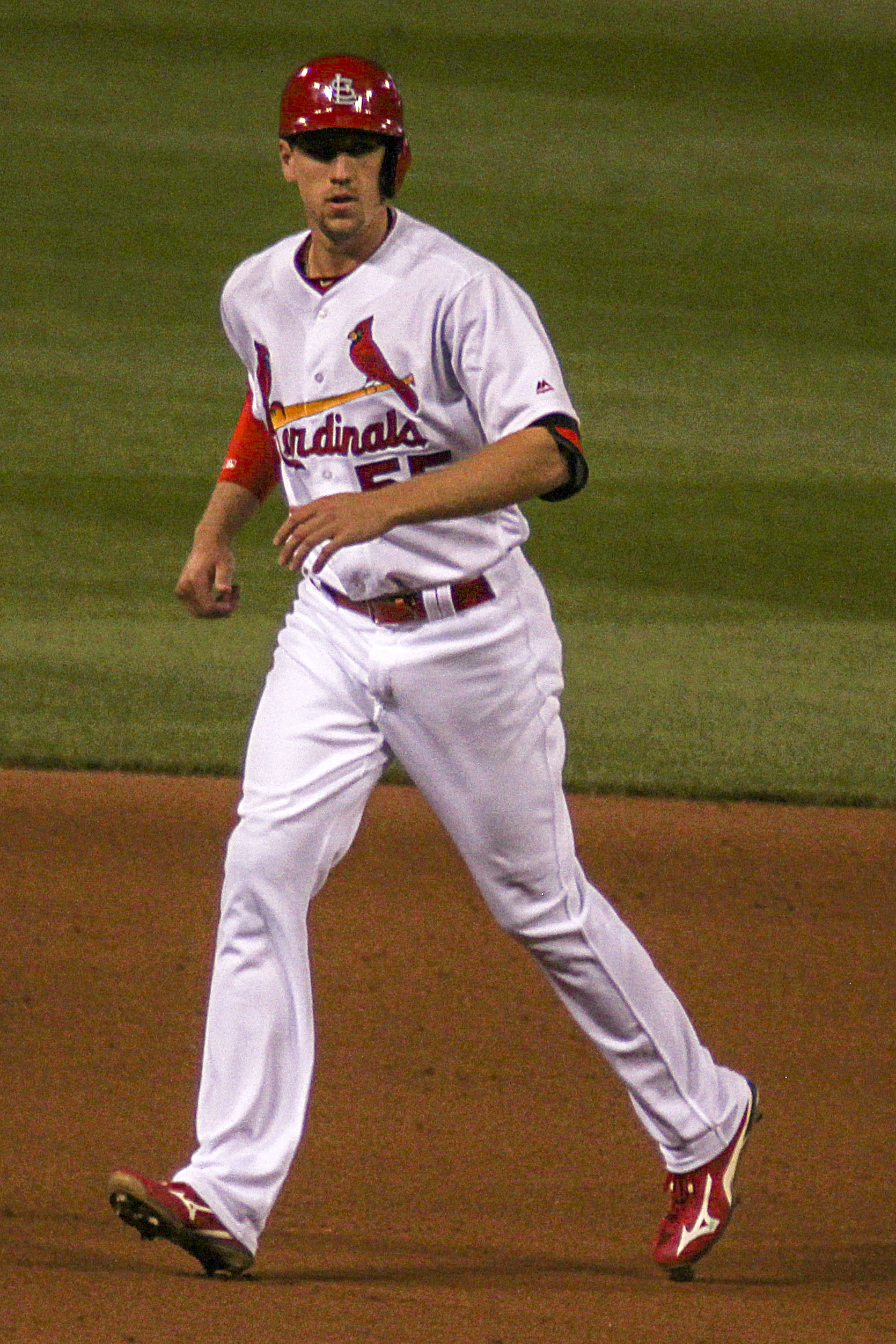 Cardinals Stephen Piscotty leads off.